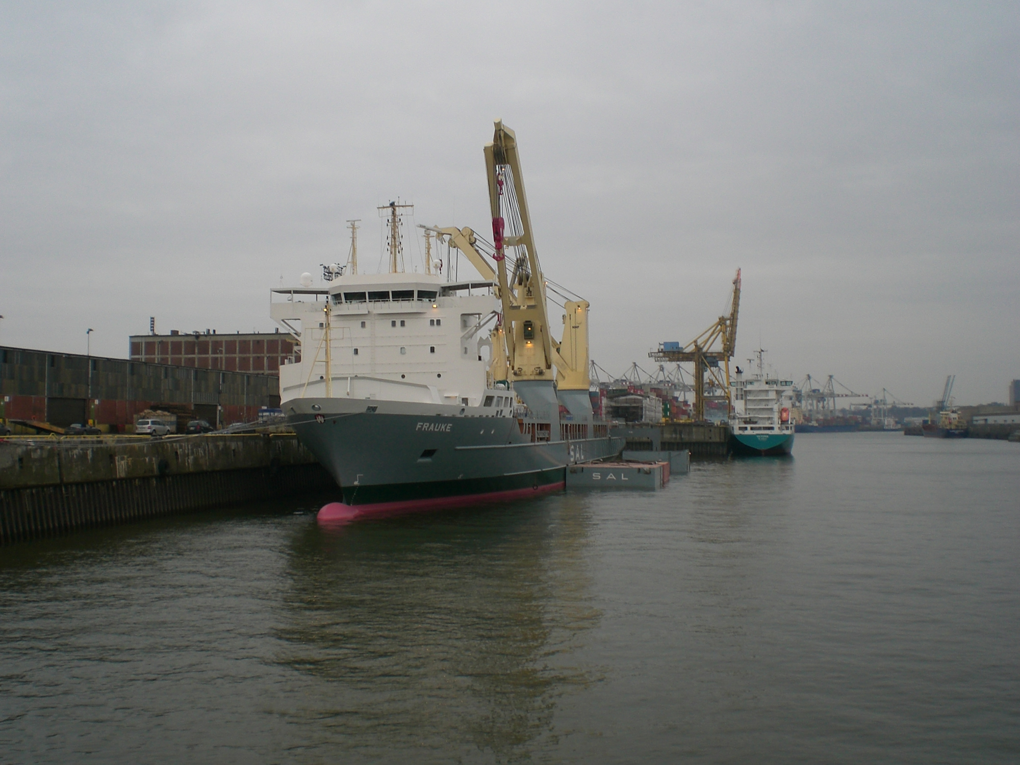 MV Frauke Sietas Typ 176 Heavy Lift vessel, Owner SAL Germany IMO Number: 9376488 MMSI Number: 305164000 Callsign: V2DB9 Length: 160 m Beam: 24 m